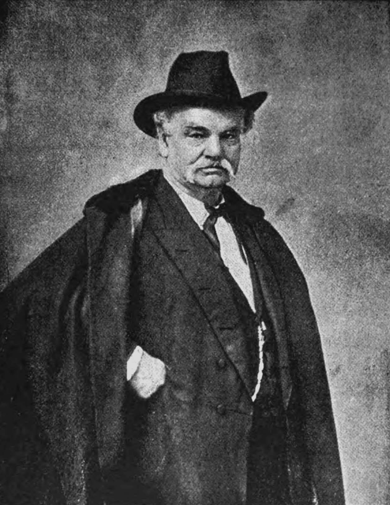 Portrait photograph of U.S. Congressman and Treasurer Francis Elias Spinner